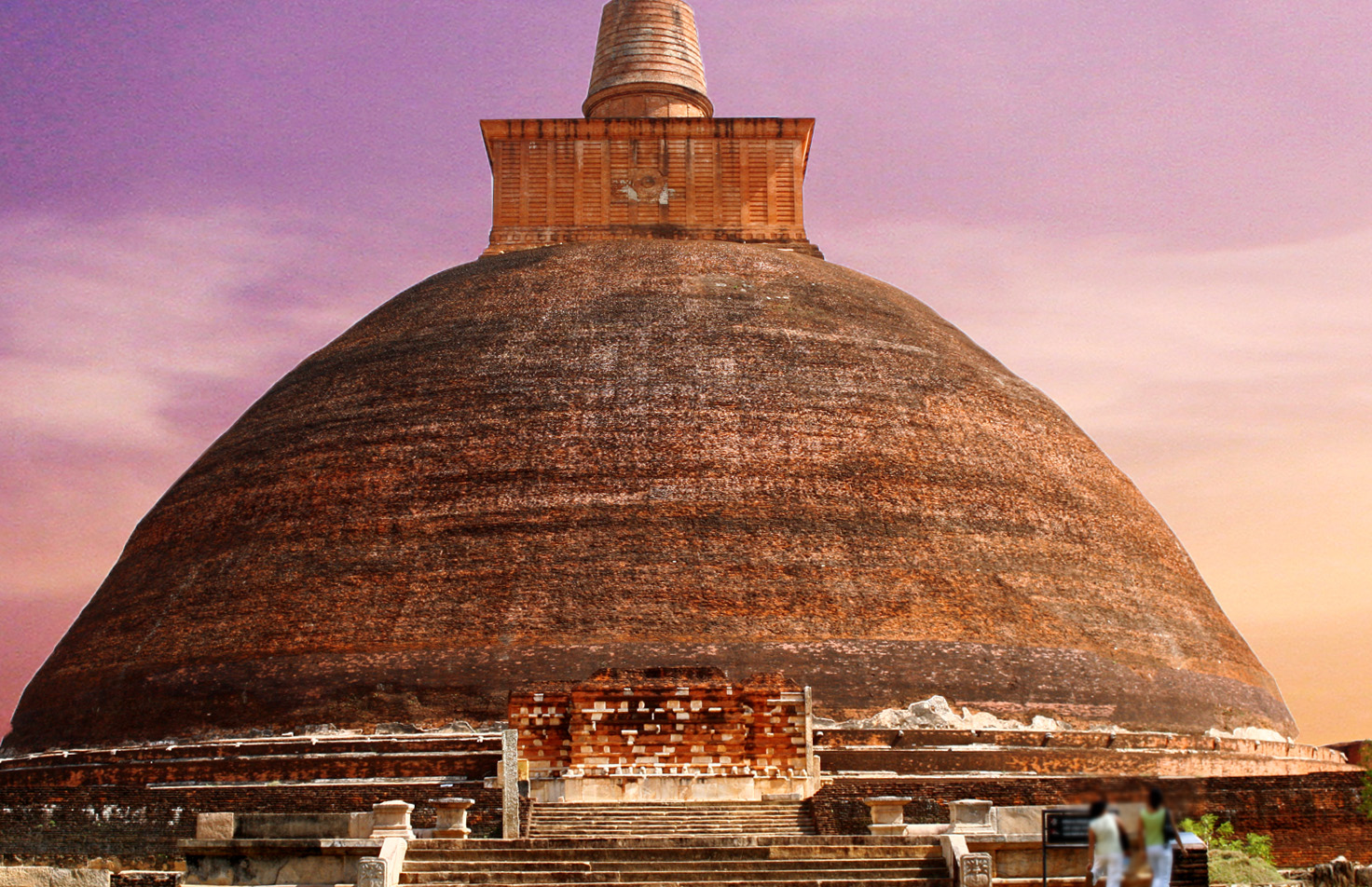 Jetavanaramya